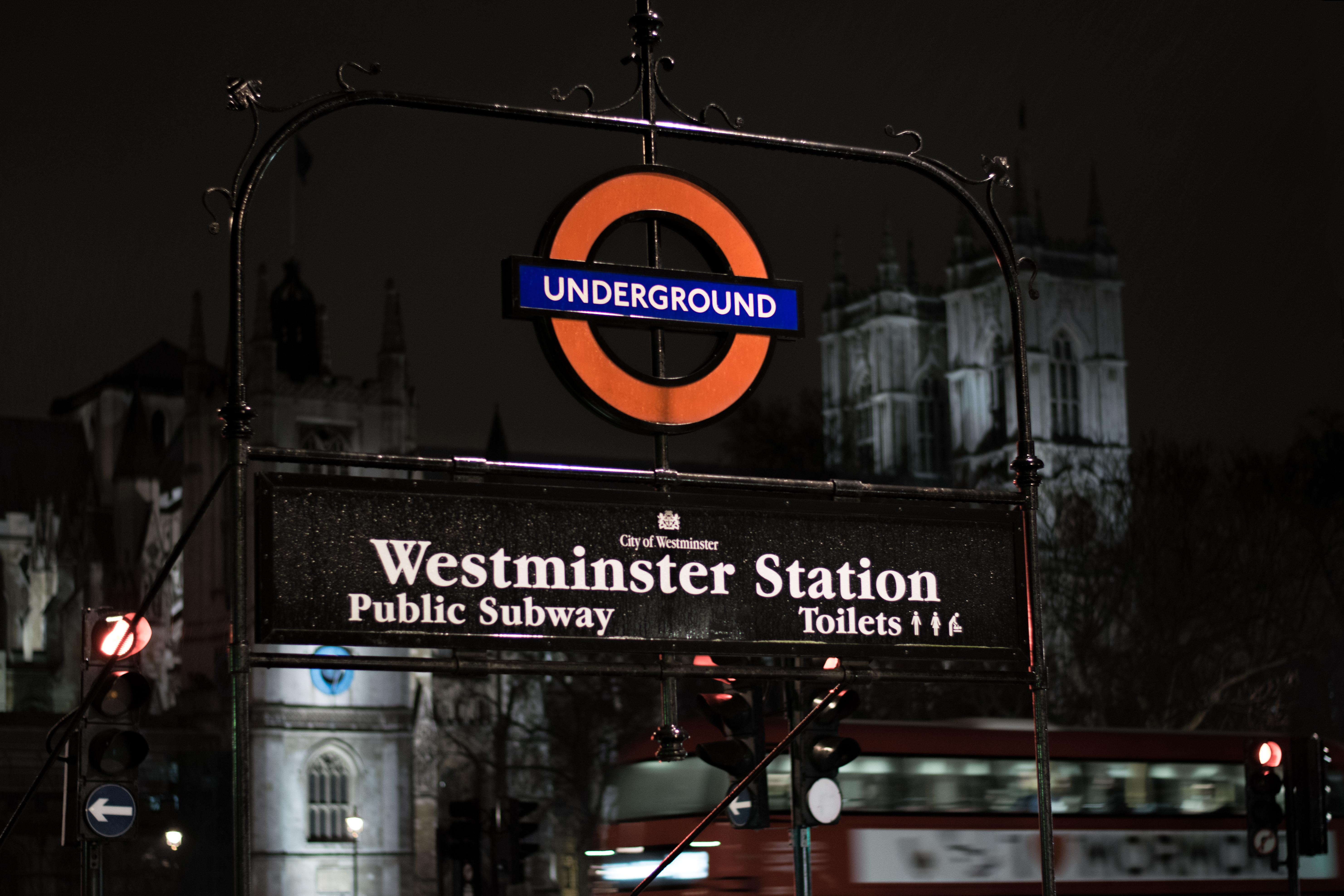 Roundel in the Westminster tube station in London, United Kingdom.